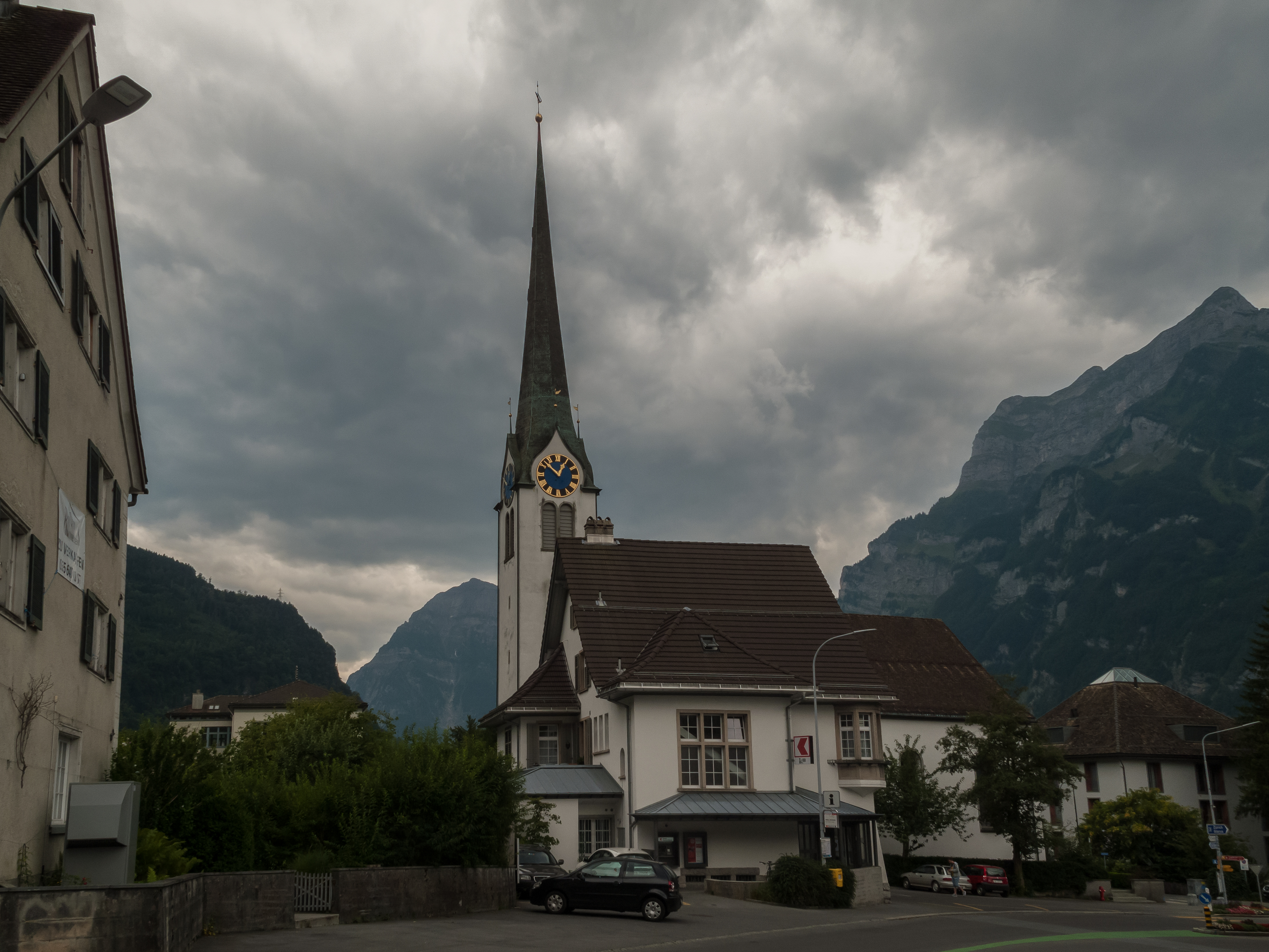 Mollis, die reformierte Kirche